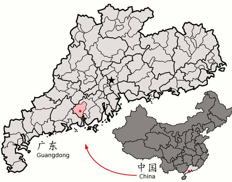 Location of Enping city (red) and Enping district (pink) within Guangdong province of China